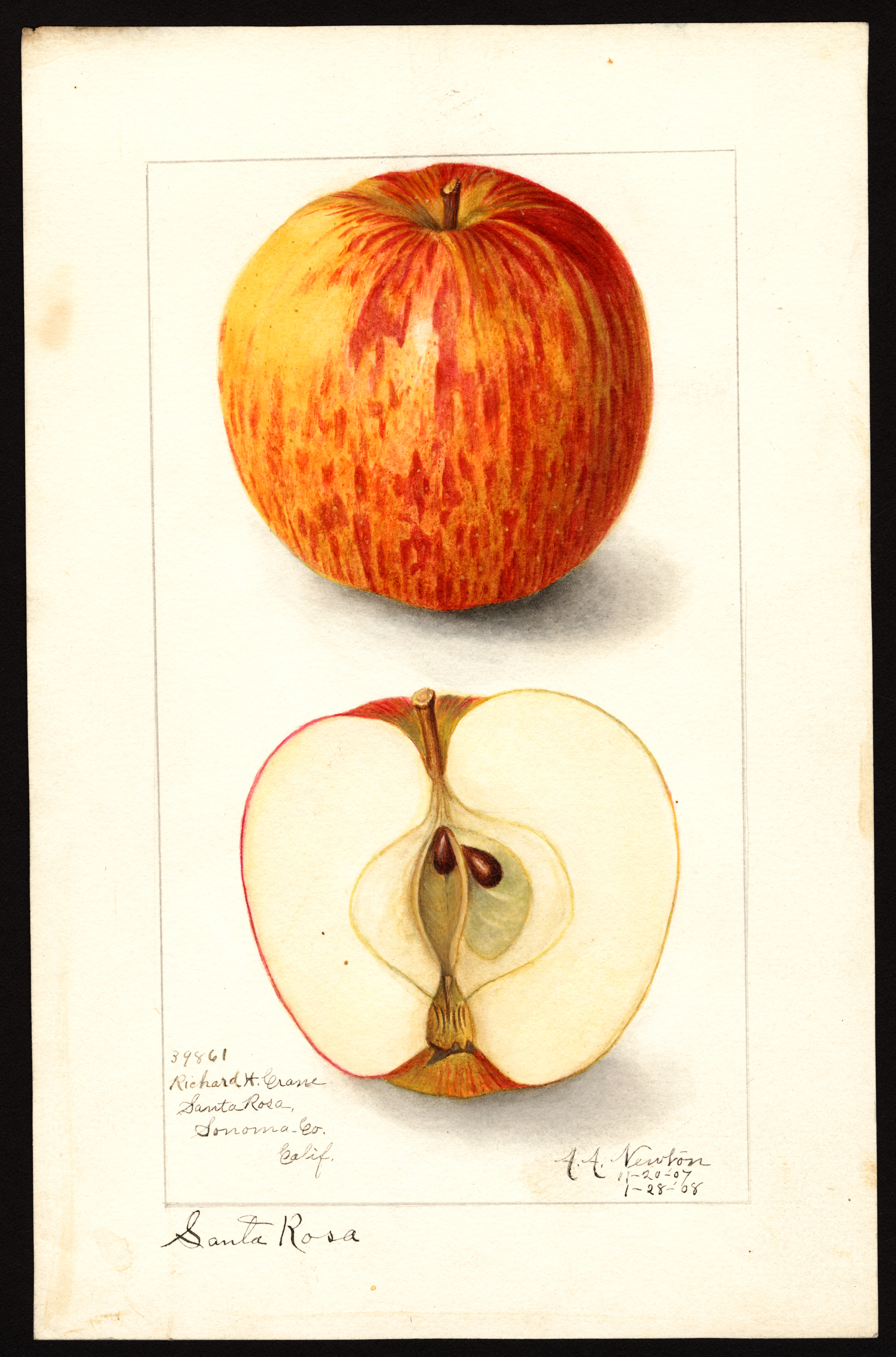 Image of the Santa Rosa variety of apples (scientific name: Malus domestica), with this specimen originating in Santa Rosa, Sonoma County, California, United States. Source: U.S. Department of Agriculture Pomological Watercolor Collection. Rare and Special Collections, National Agricultural Library, Beltsville, MD 20705.